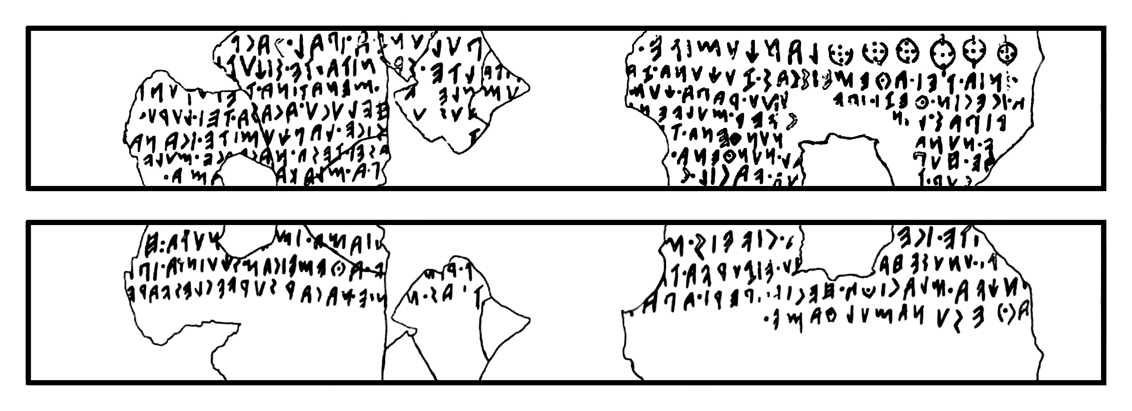 Drawing of the etruscan lead sheet from Santa Marinella near Pyrgi. Rome, Museo Nazionale di Villa Giulia.